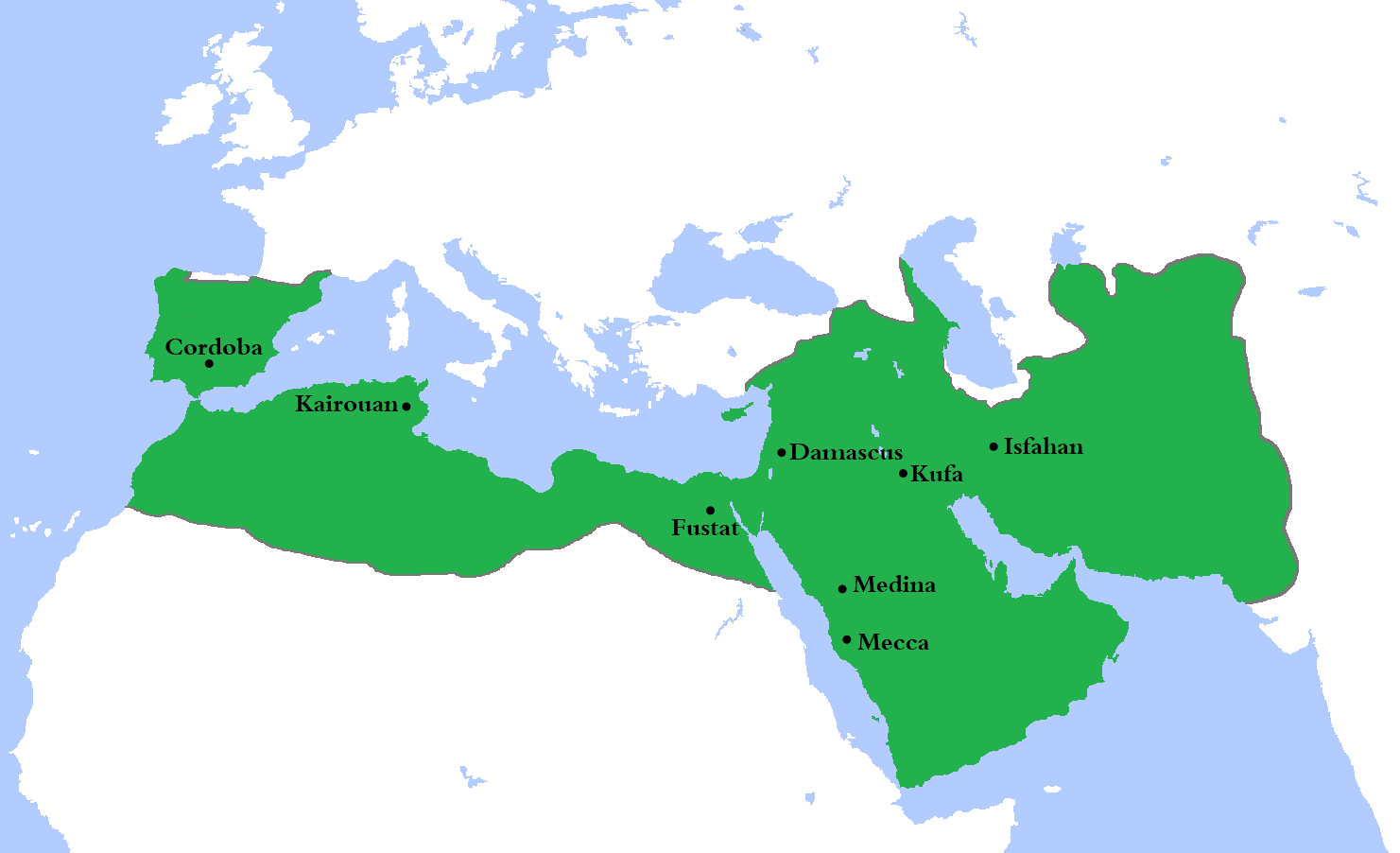 Locator map for the Umayyad Caliphate at its greatest extent, c. AD 750. (Partially based on Atlas of World History (2007) - World 500-750, map.)